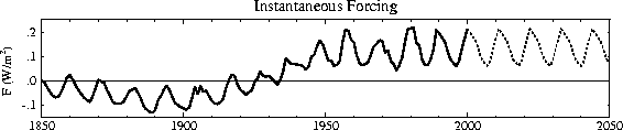 Solar forcing used in NASA GISS SI2000 simulations.